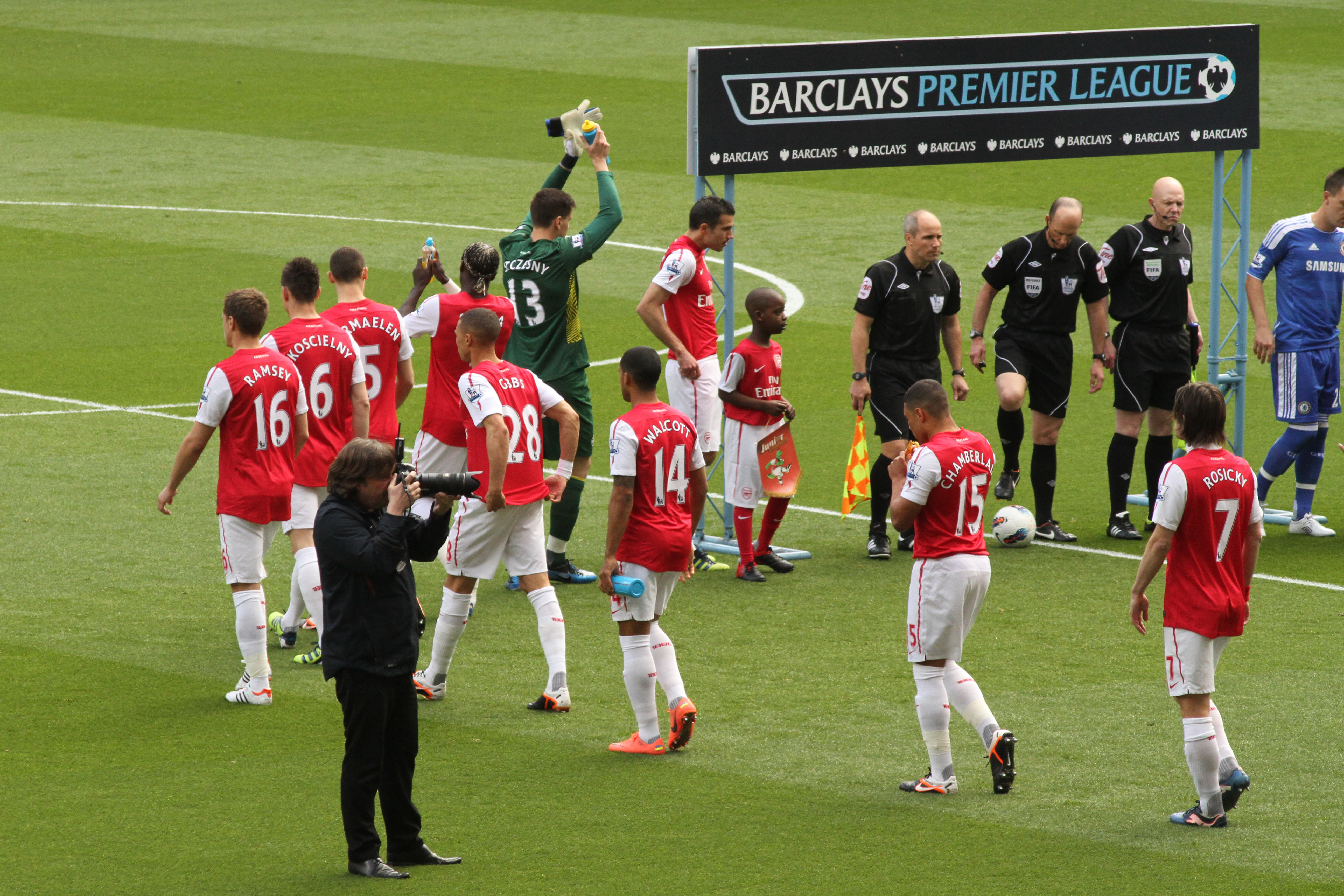 Arsenal v Chelsea 02